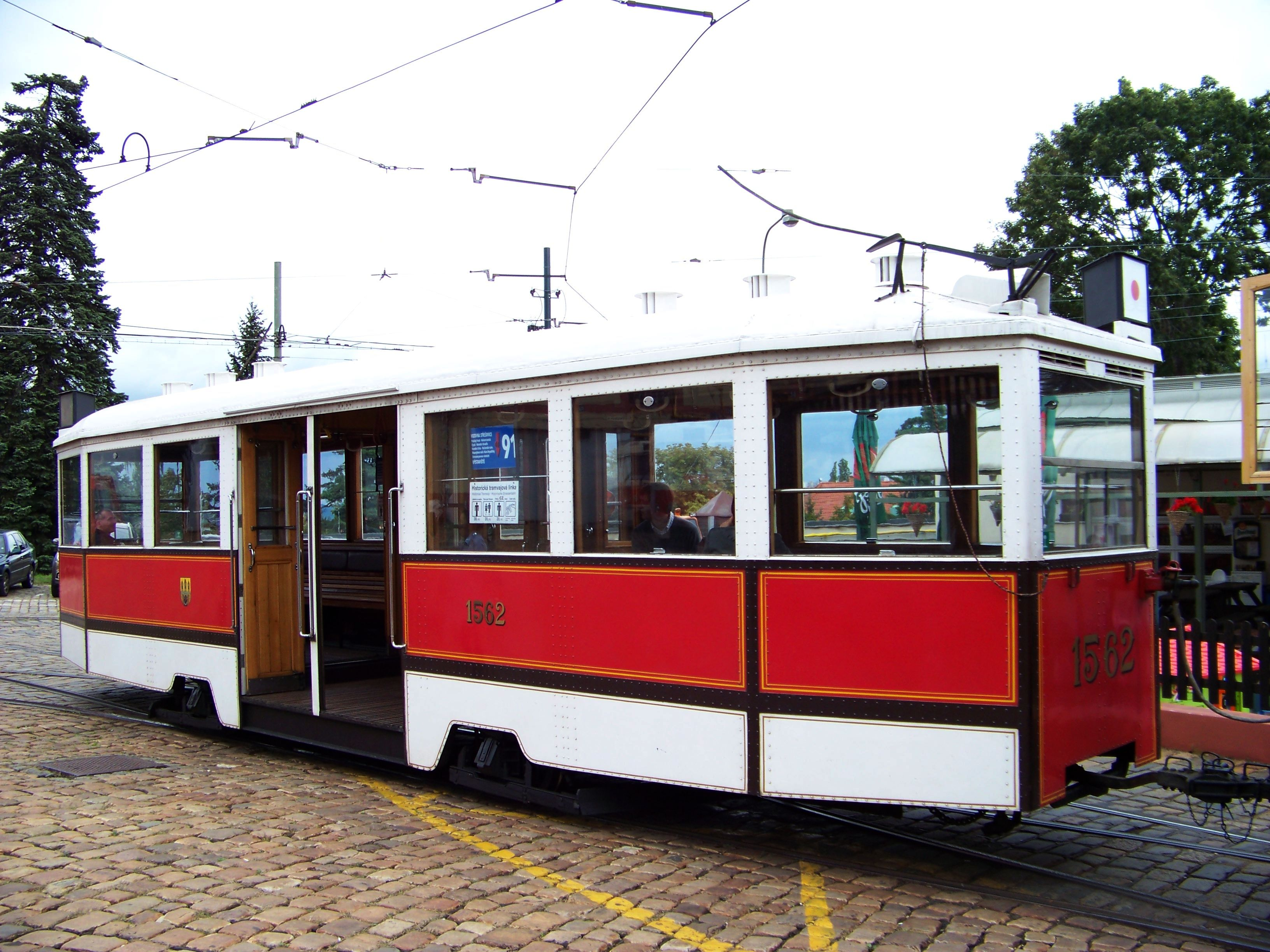 Prague-Střešovice, Czech Republic. Střešovice tram depot, a historical tram.